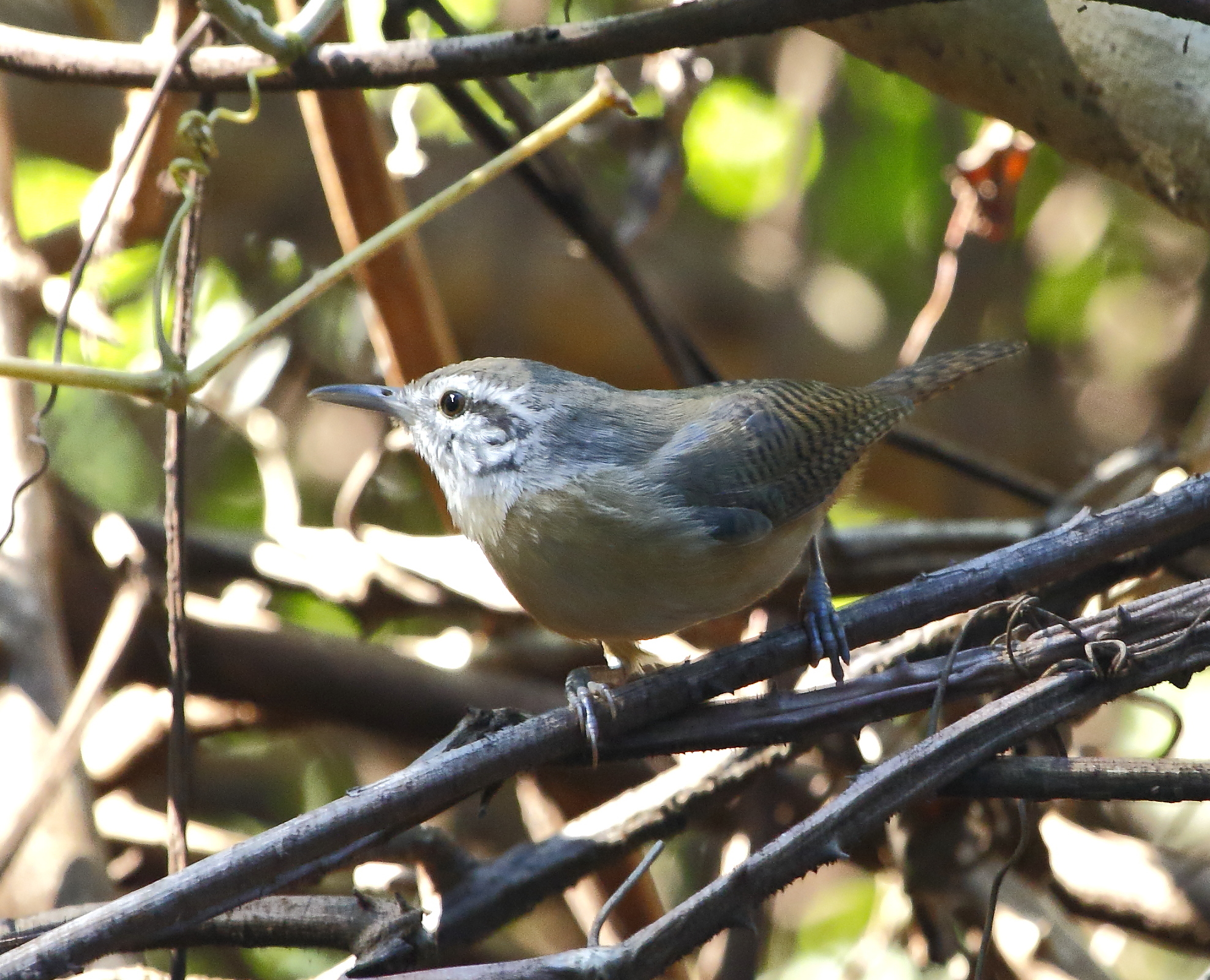 Fawn-breasted wren at Aquidauana - MS - Brazil